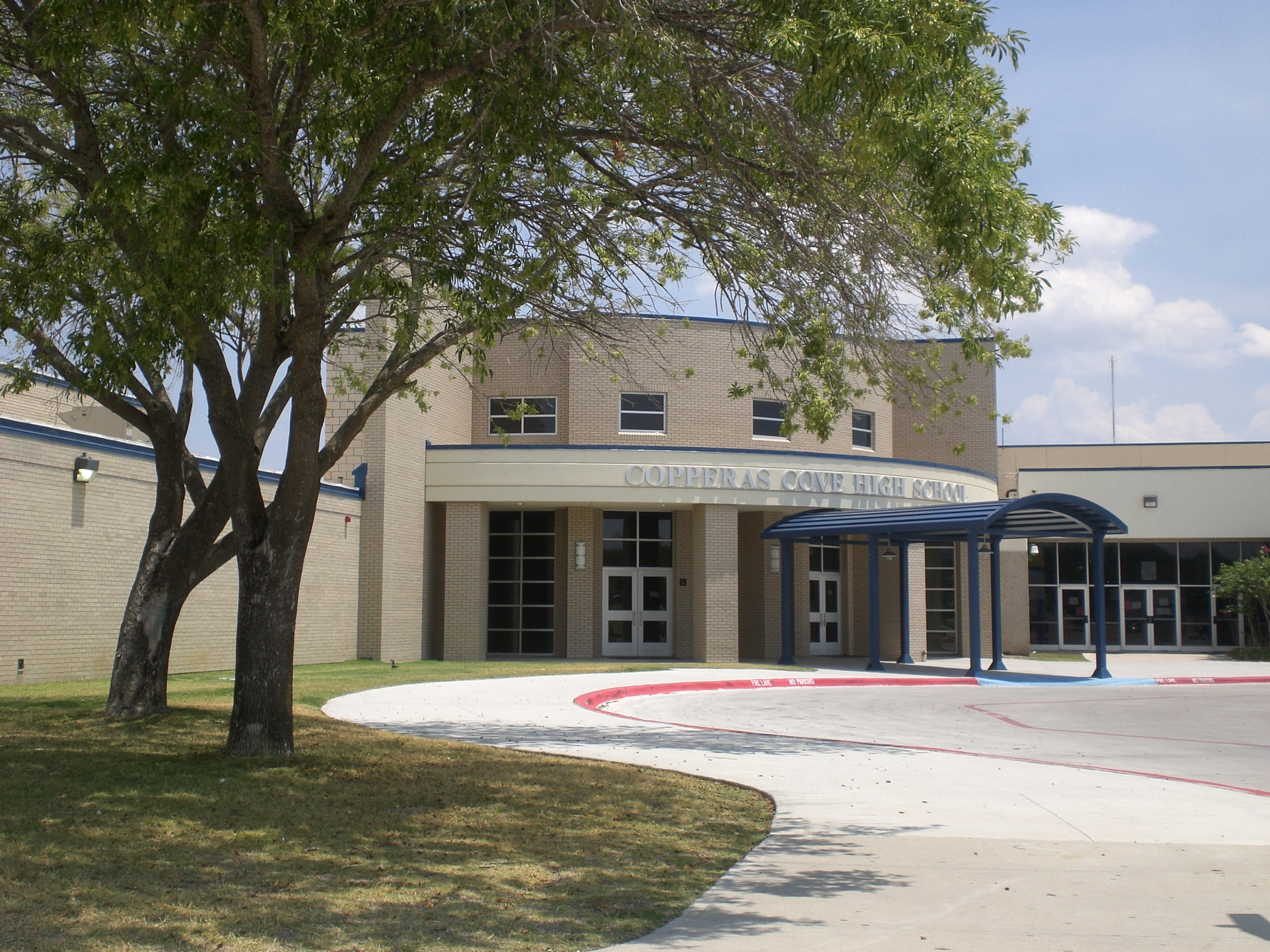 front entrance to Copperas Cove High School